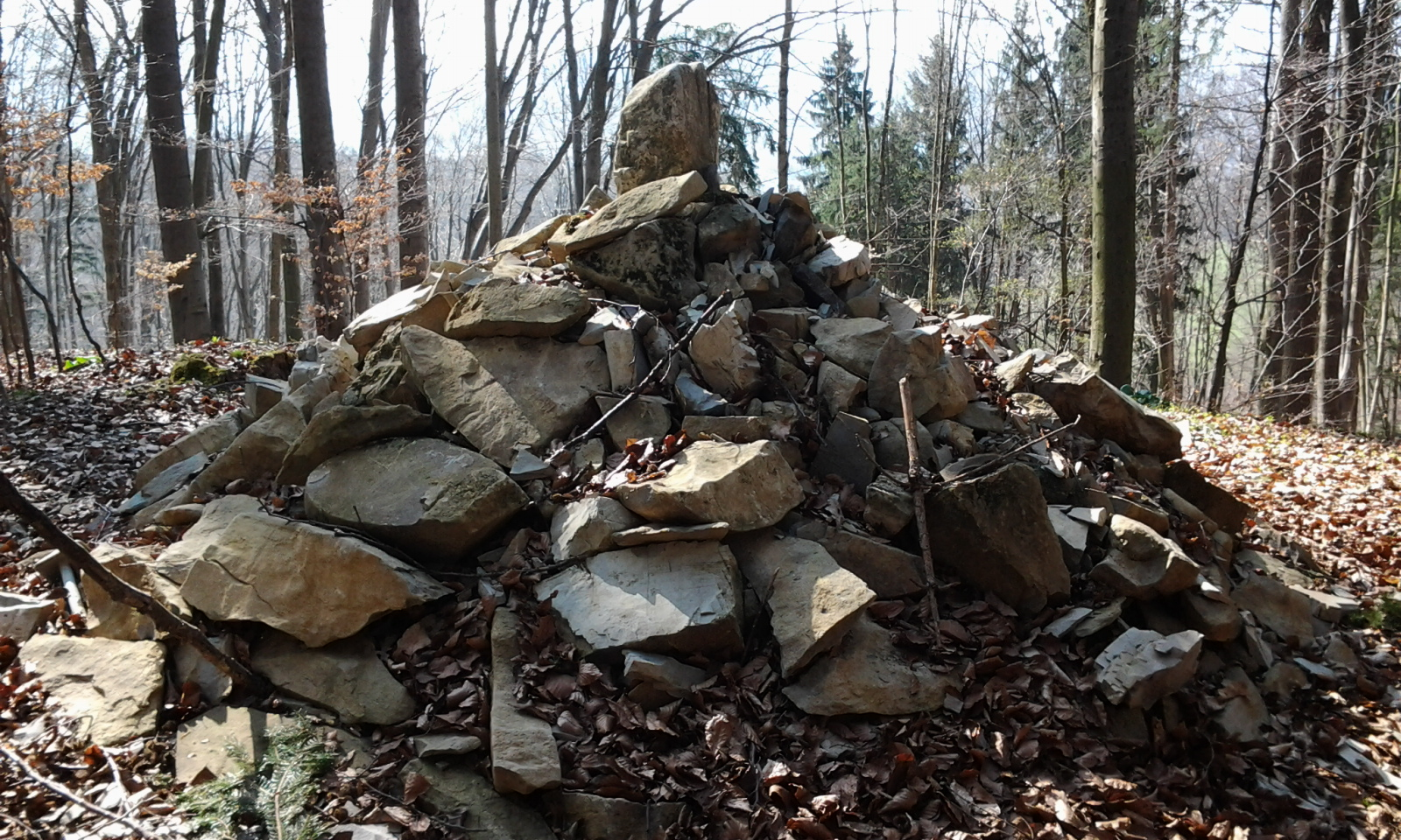 Highest point on mountain Plainberg (549 m, 1801 ft), municipality of Bergheim, state of Salzburg, Austria.